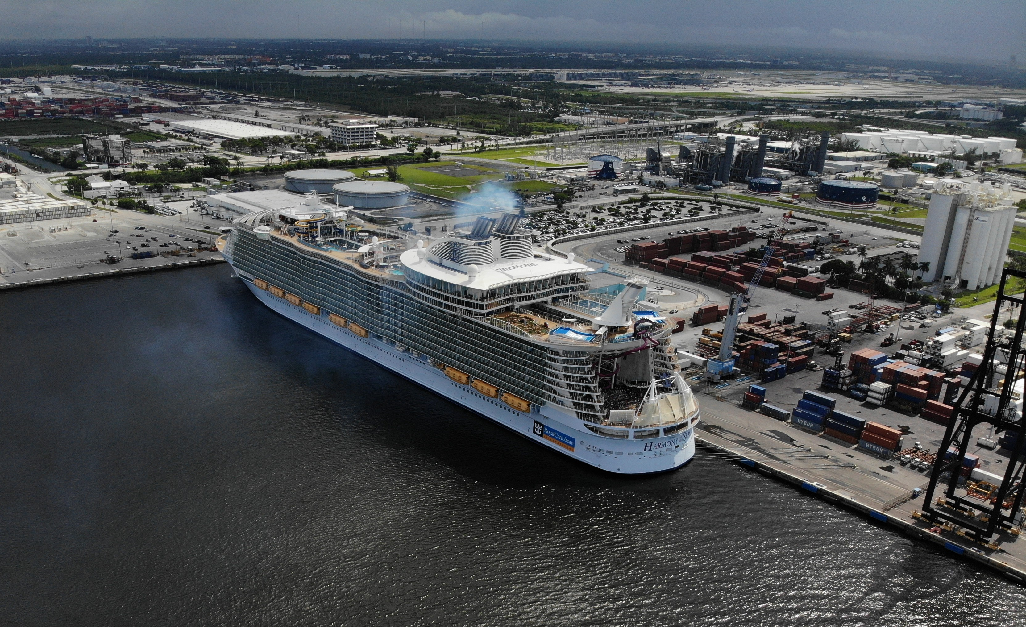 An aerial shot of the MS Harmony of the Seas (the world's largest passenger ship as of 2018) docked at Port Everglades.